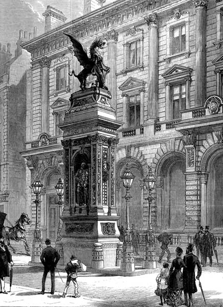 The Temple Bar Memorial. :en:Illustrated London News|Illustrated London News 1880.